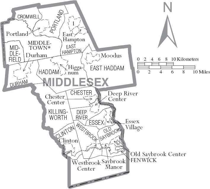 Map of Middlesex County, Connecticut, United States with township and municipal boundaries